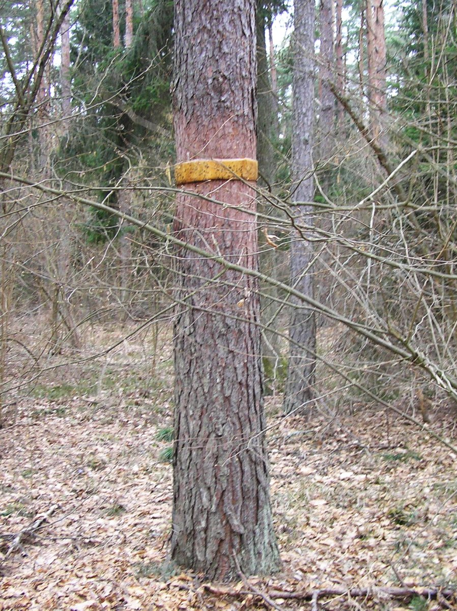 Caterpillar grease on Lymantria monacha, on Pinus sylvestris, Brok, Poland